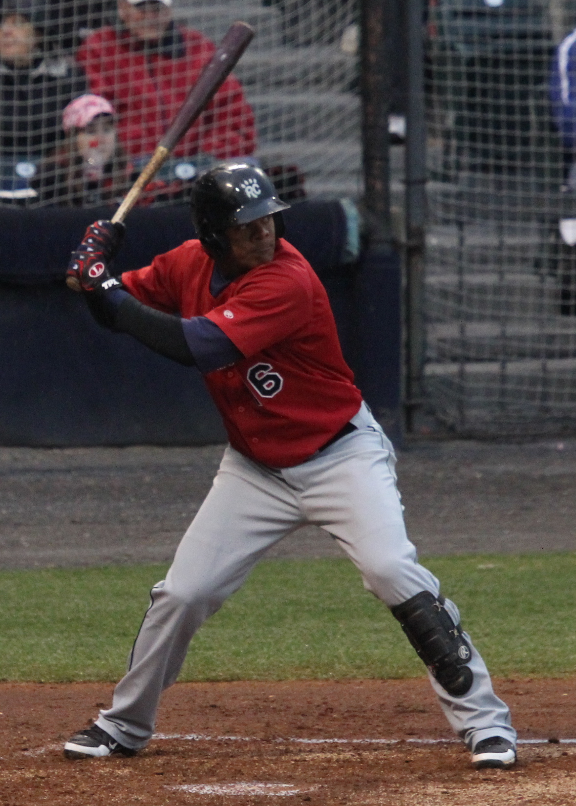 4/4/13 Opening night at the Richmond Flying Squirrels with Javy Lopez and Ryan Kerrigan. Reynaldo Rodriguez at bat. The game got rained out (as you can progressively see in my photos). I rode my bike home at 8pm after the game was stopped.